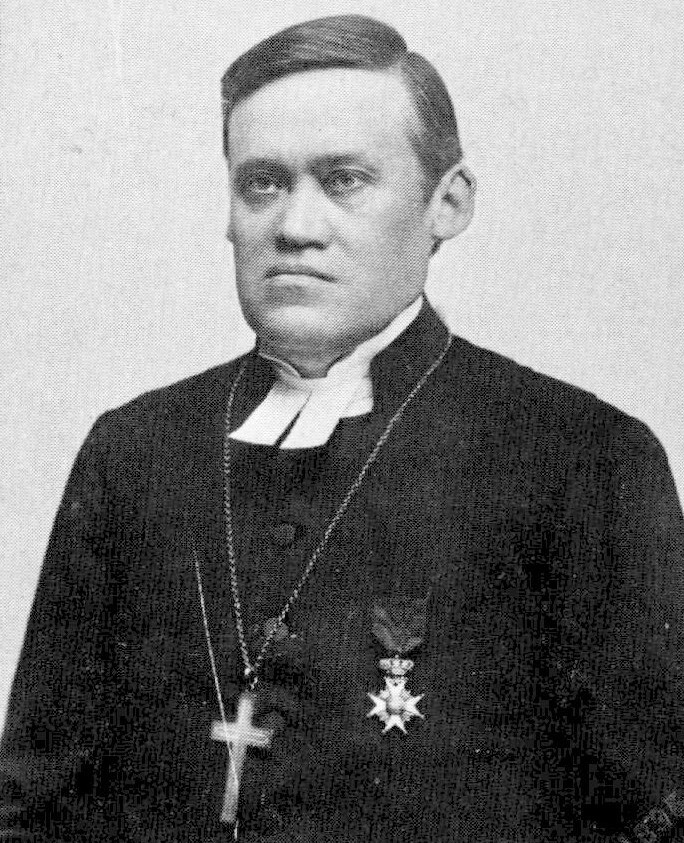 Swedish bishop Nils Johan Olof Herman Lindström (1842-1916)